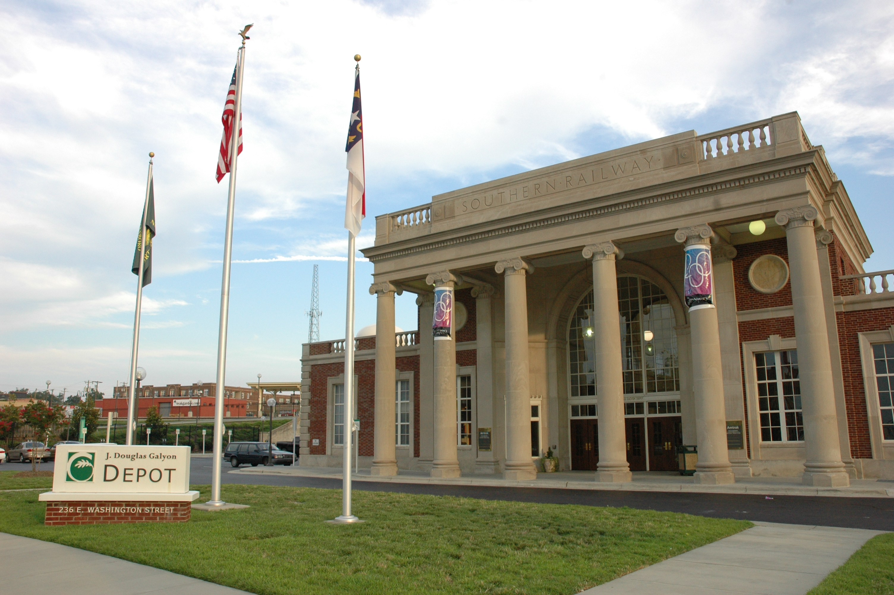 Photo of the outside of the Greensboro, NC, USA Amtrak station.